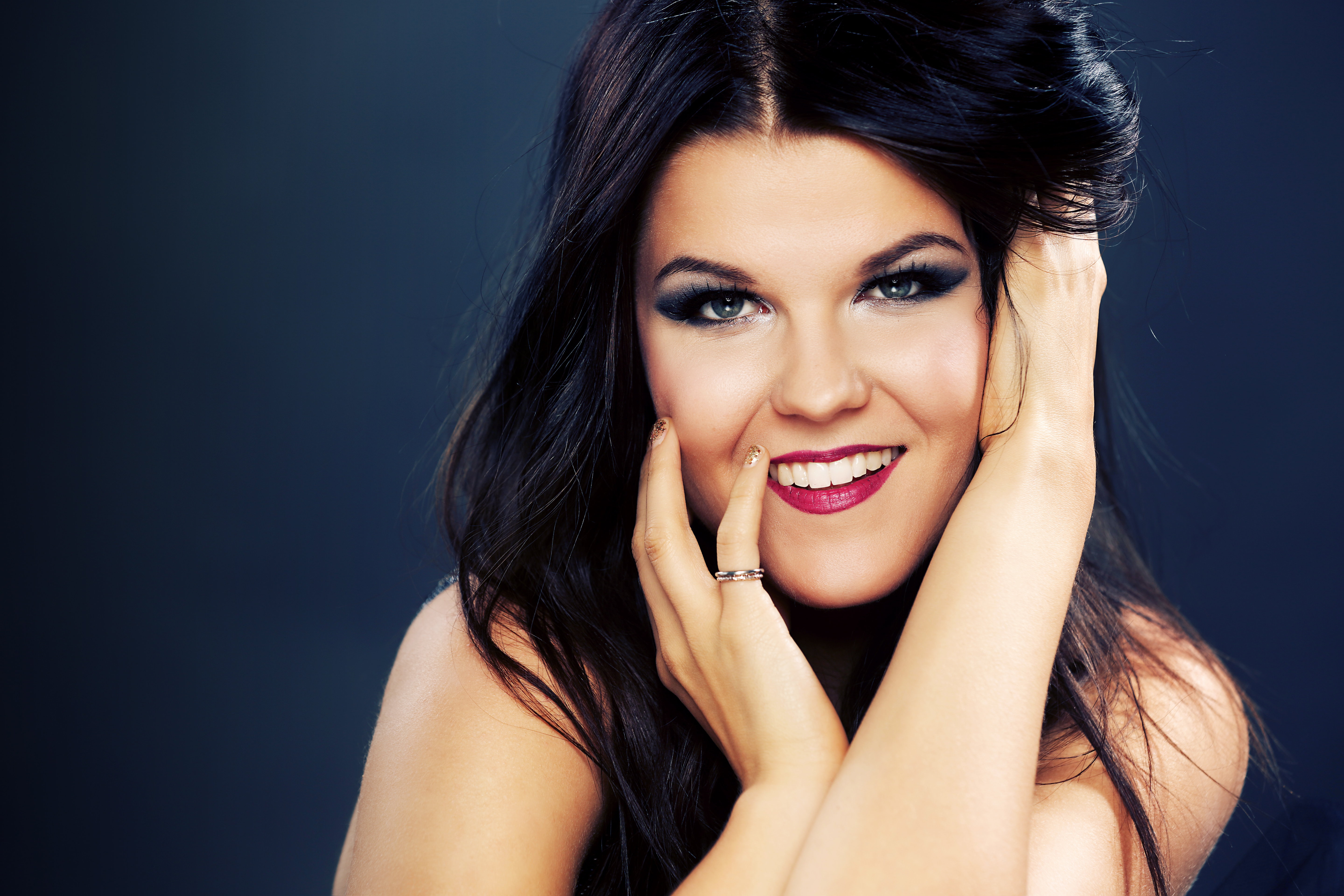 Saara Sofia Aalto (born 2 May 1987) is a Finnish singer, songwriter, and voice actress.